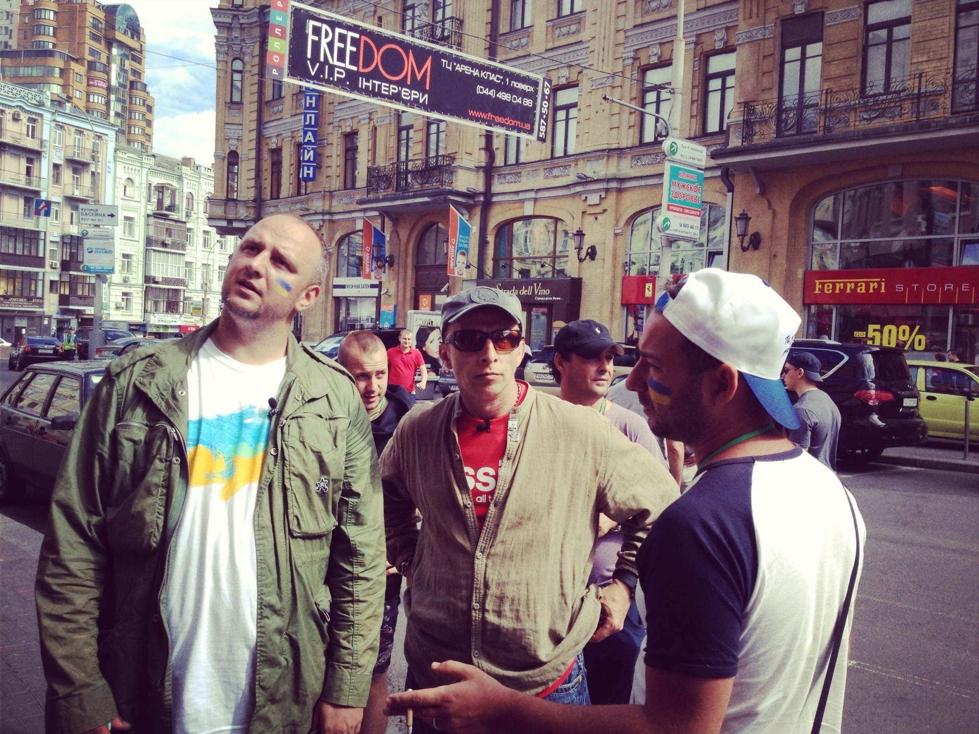 Potap and Ivan Okhlobystin in Kiev